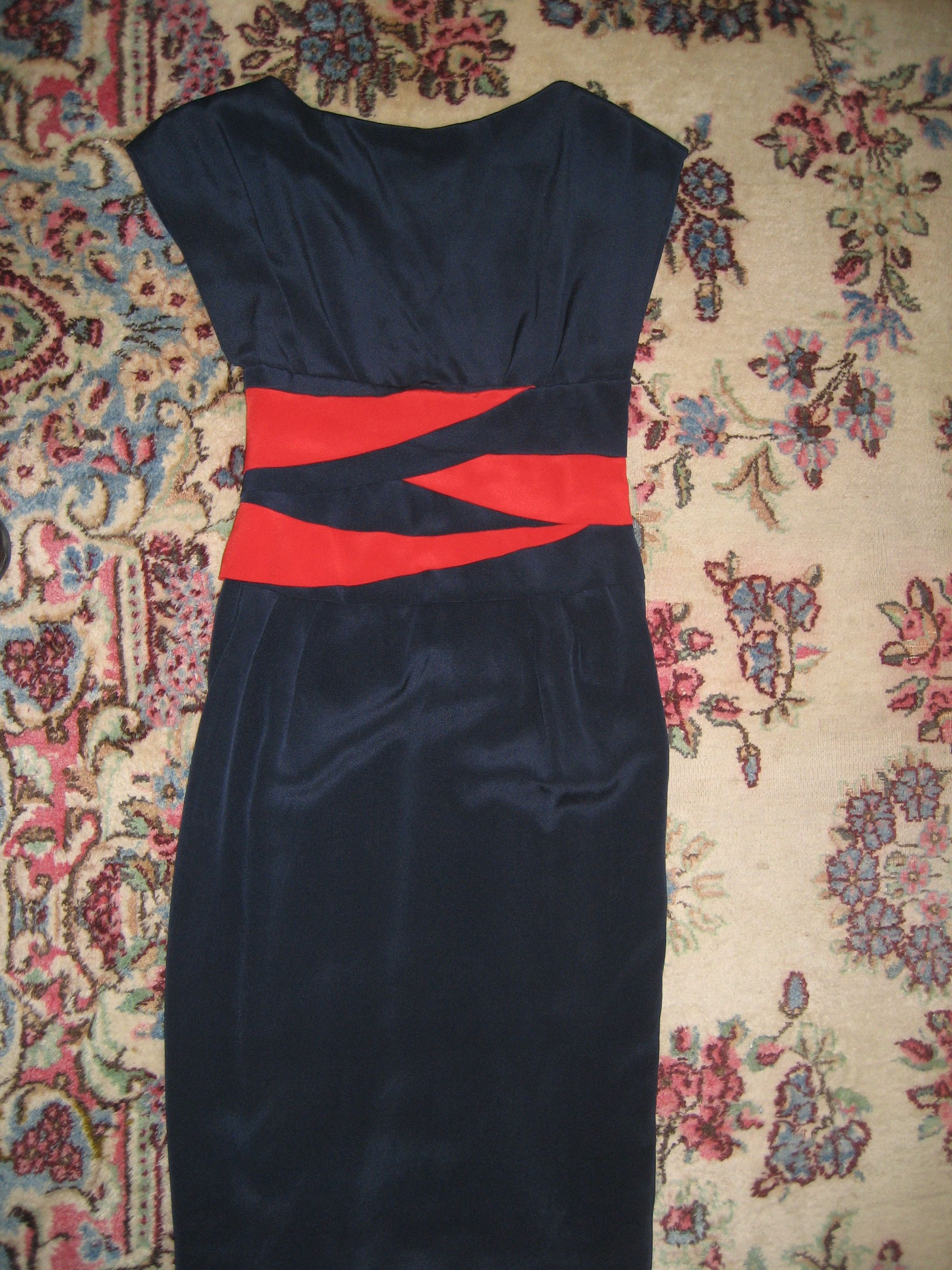 A simple Dior Haute Couture evening gown from the Spring 1983 collection, designed by Marc Bohan. I took this photo myself.